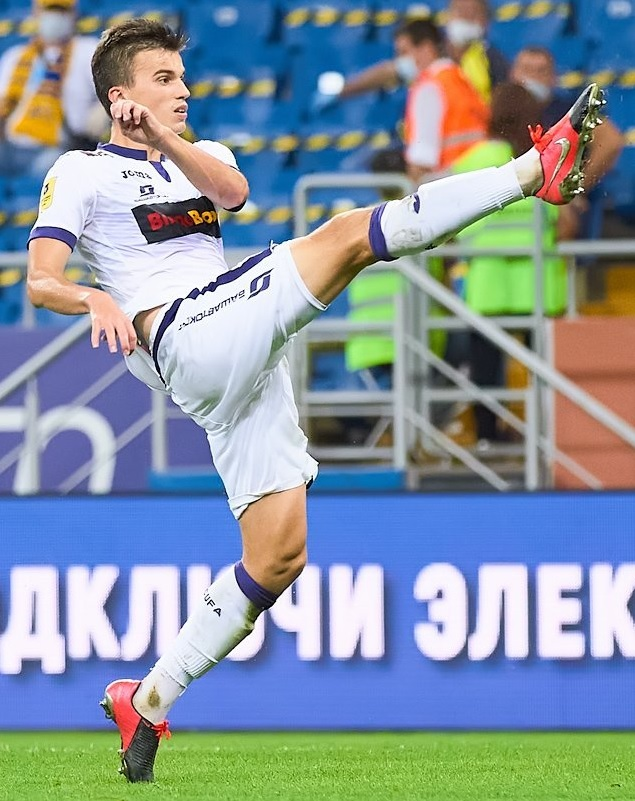 Artyom Golubev with FC Ufa in a game against FC Rostov.